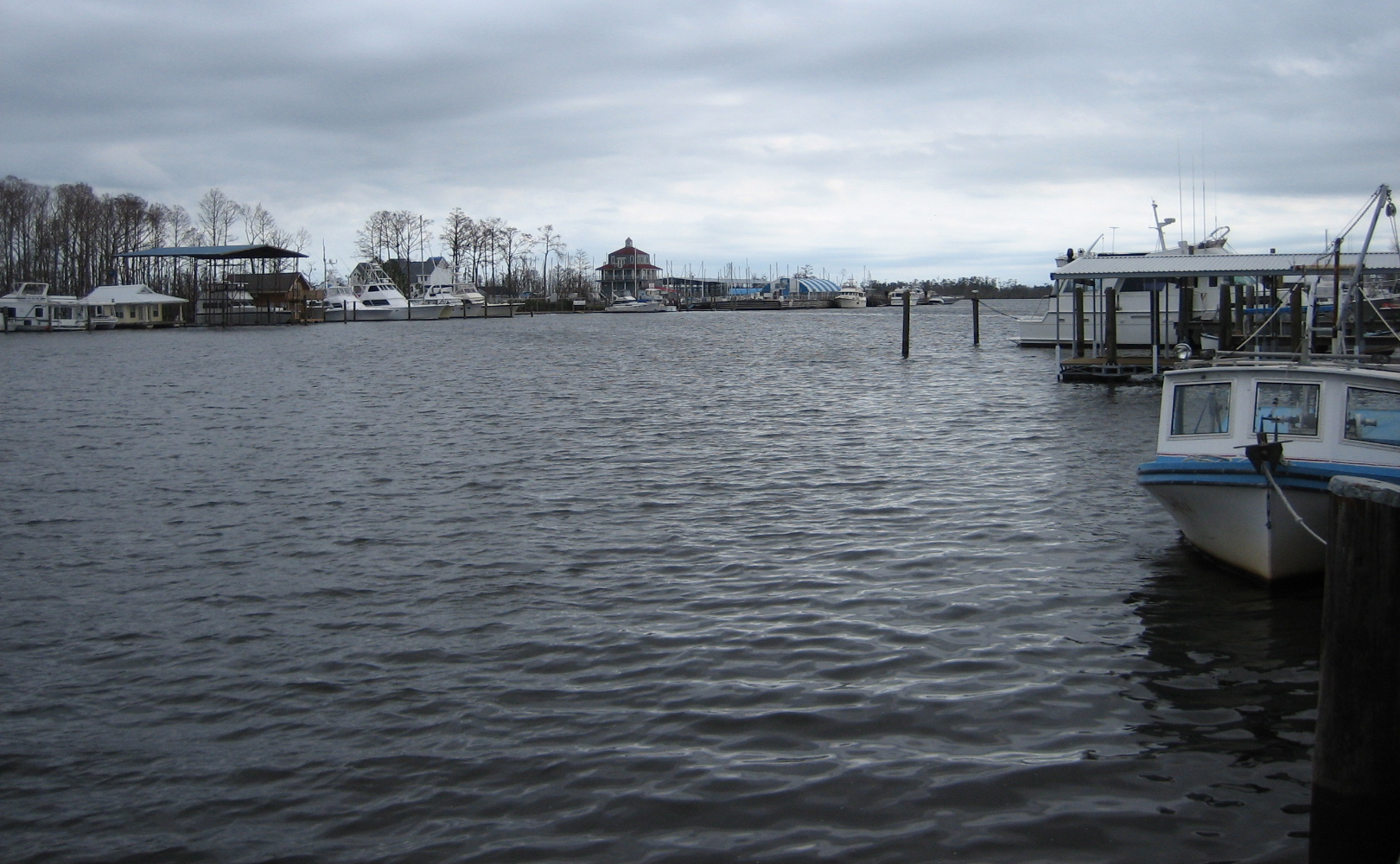 View of Tchefuncte River at Madisonville, Louisiana